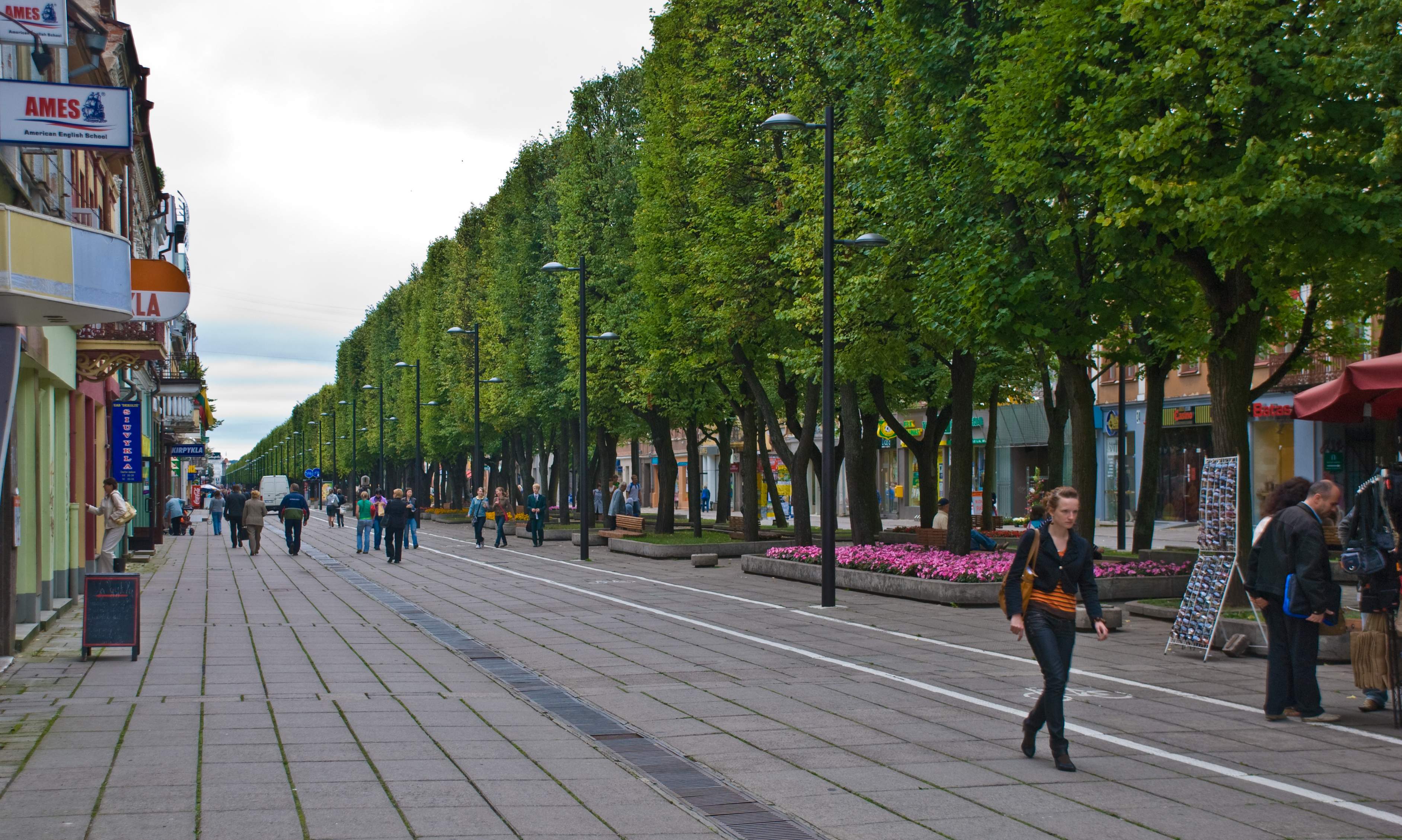 Laisves St., Kaunas, Lithuania, 11 Sept. 2008